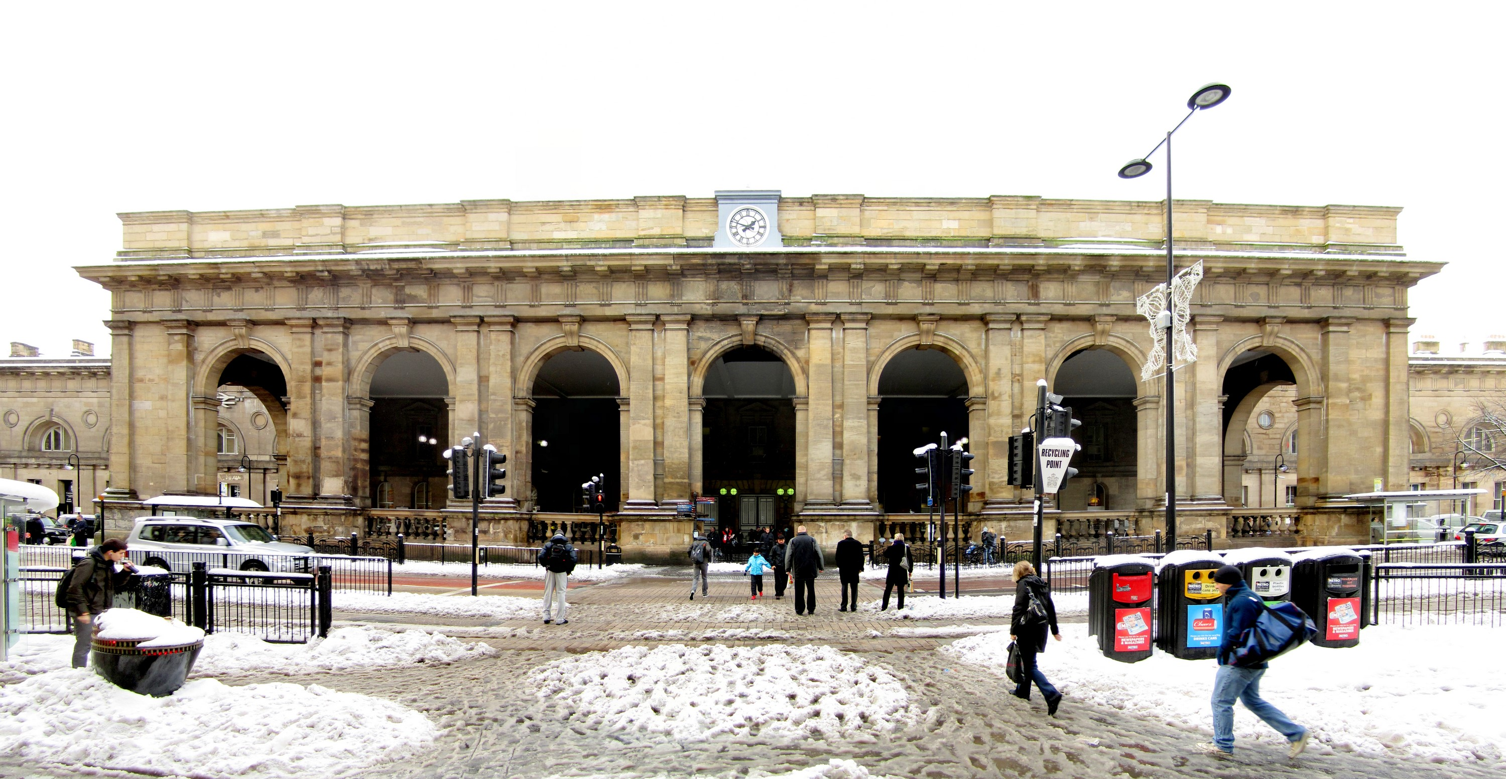 Portico, Newcastle Central Station, Neville Street